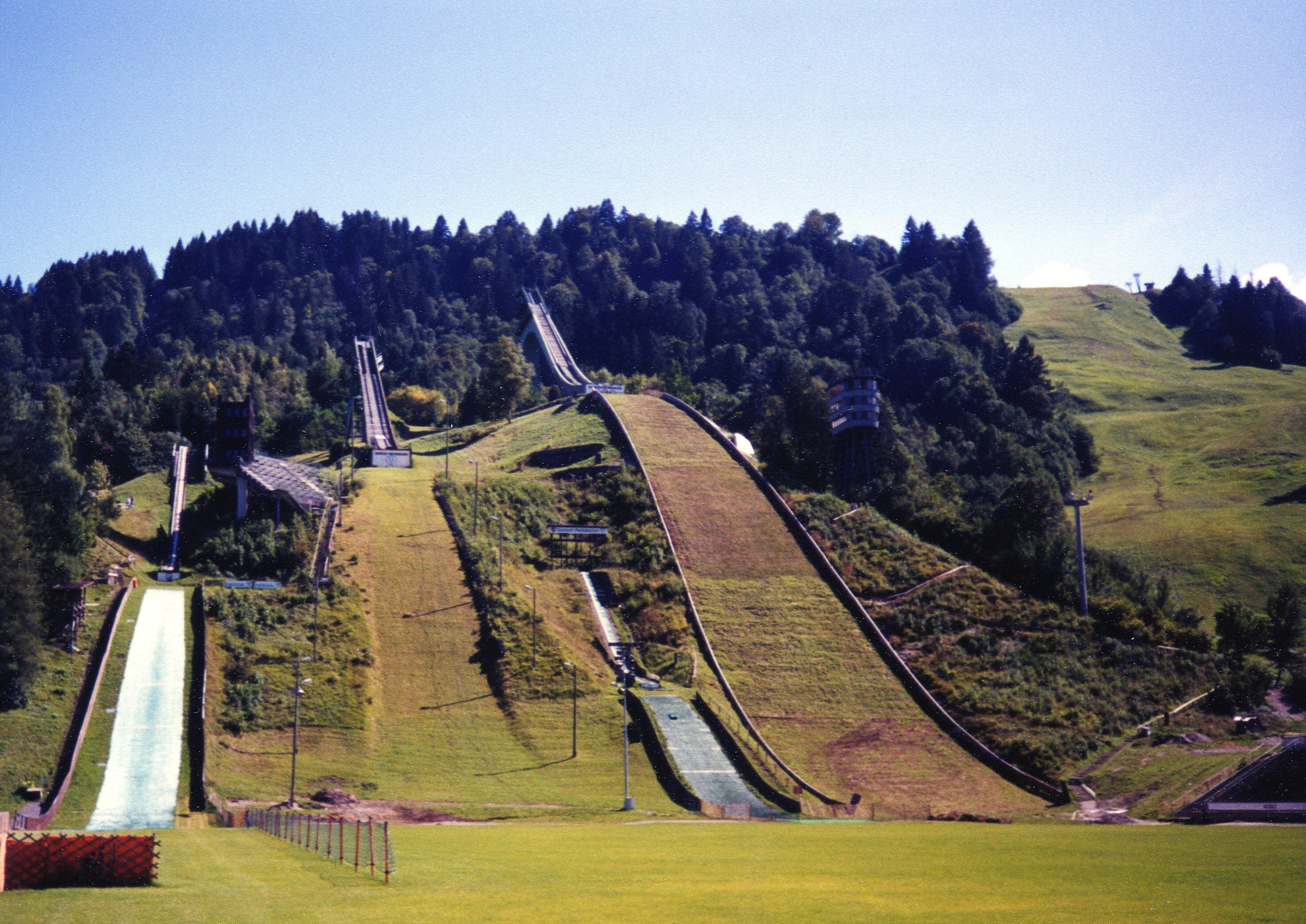 Garmisch-Partenkirchen ski jump ramps - Bavaria, summer 1996